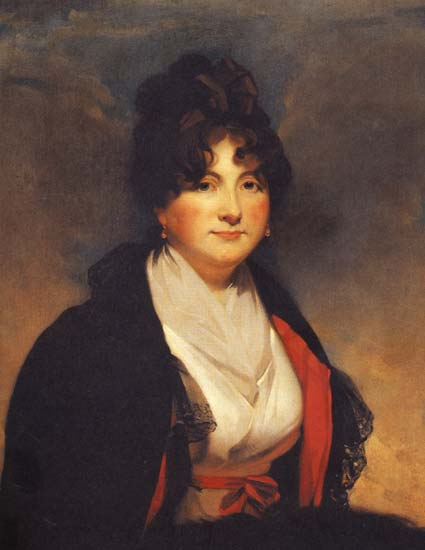 Portrait of Catherine Vorontsova, later Catherine Herbert, Countess of Pembroke (1783-1856)